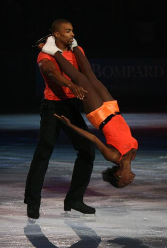 Vanessa James & Yannick Bonheur perform a lift in exhibition at the 2008 Trophée Eric Bompard. They had placed 7th at the competition. This lift would be illegal in competition.